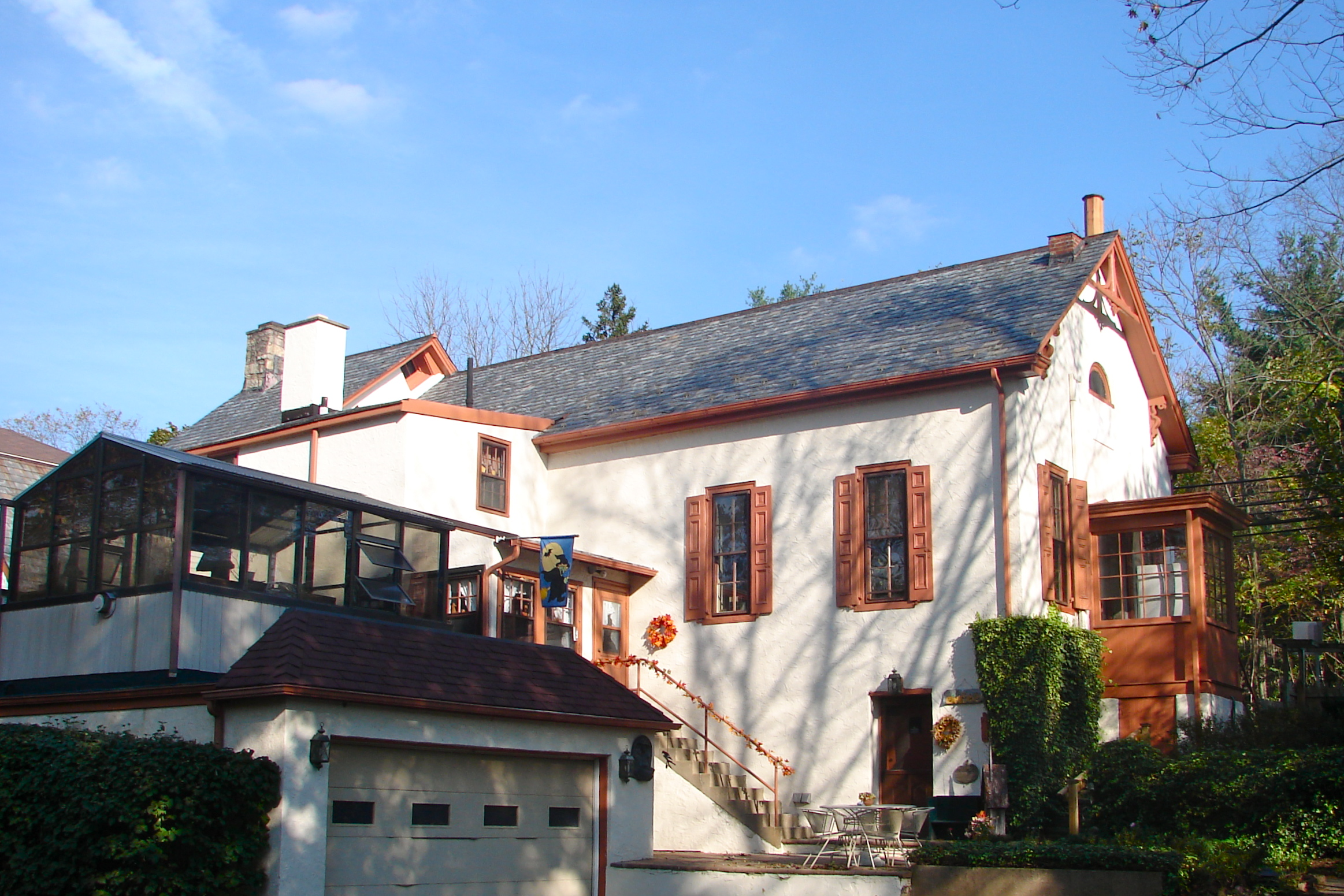 Union School on the NRHP since August 11, 1980. At 516–518 Bethlehem Pike, Fort Washington, Montgomery County, Pennsylvania. Founded in 1773 as a FREE school. Trust fund for the school still in existence (as of 1980), but the school not used as such.